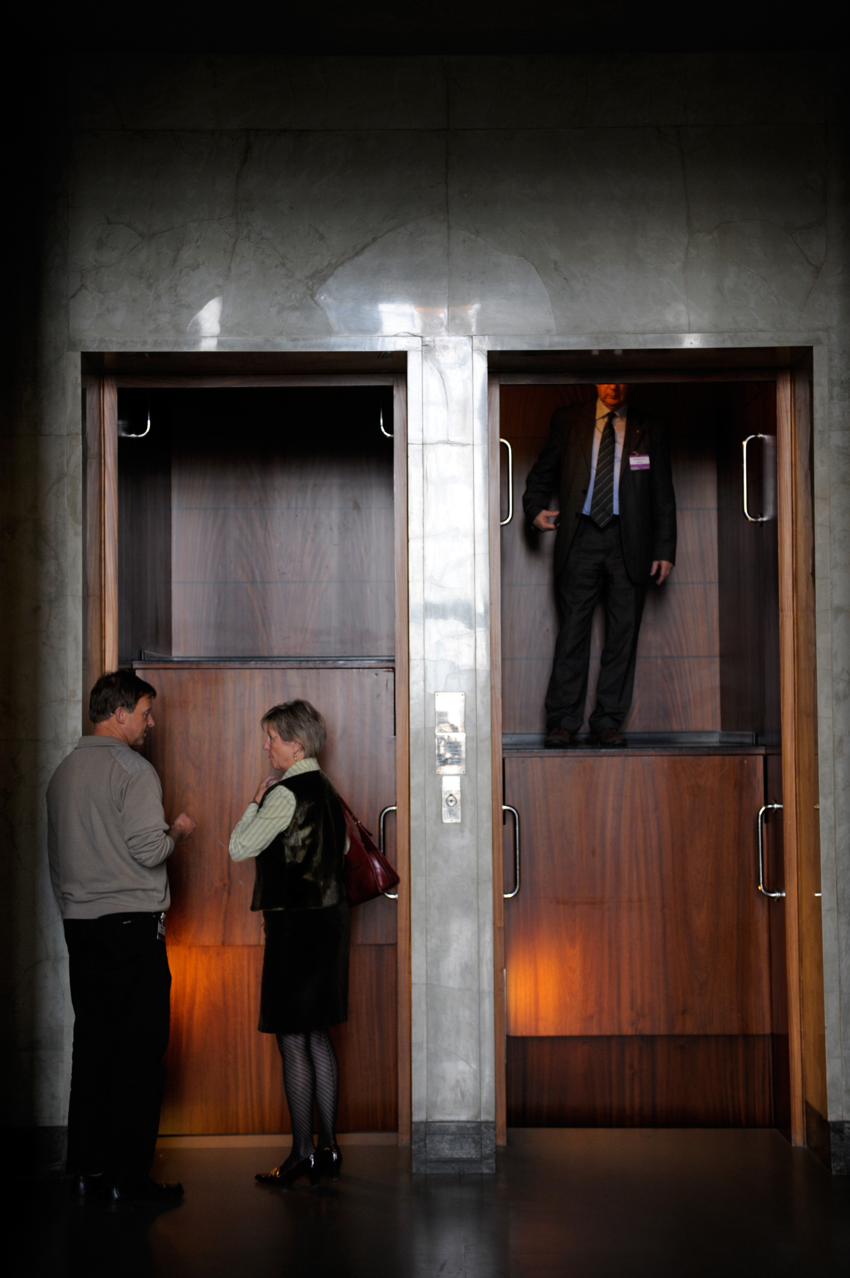 Paternoster elevator in Parliament House, Helsinki